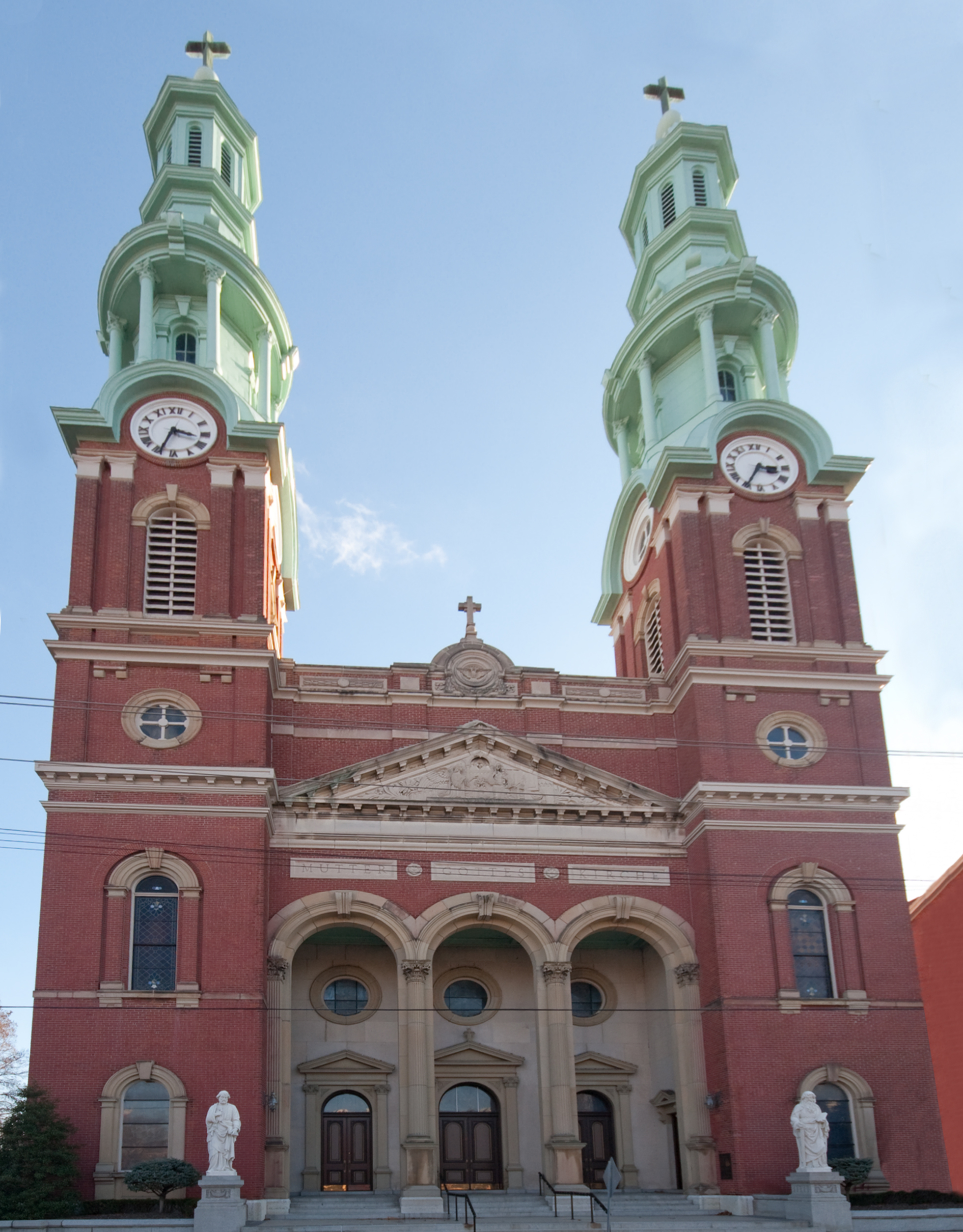 Mother of God Catholic Church in Covington, Ky. Attribution: Photo by Greg Hume